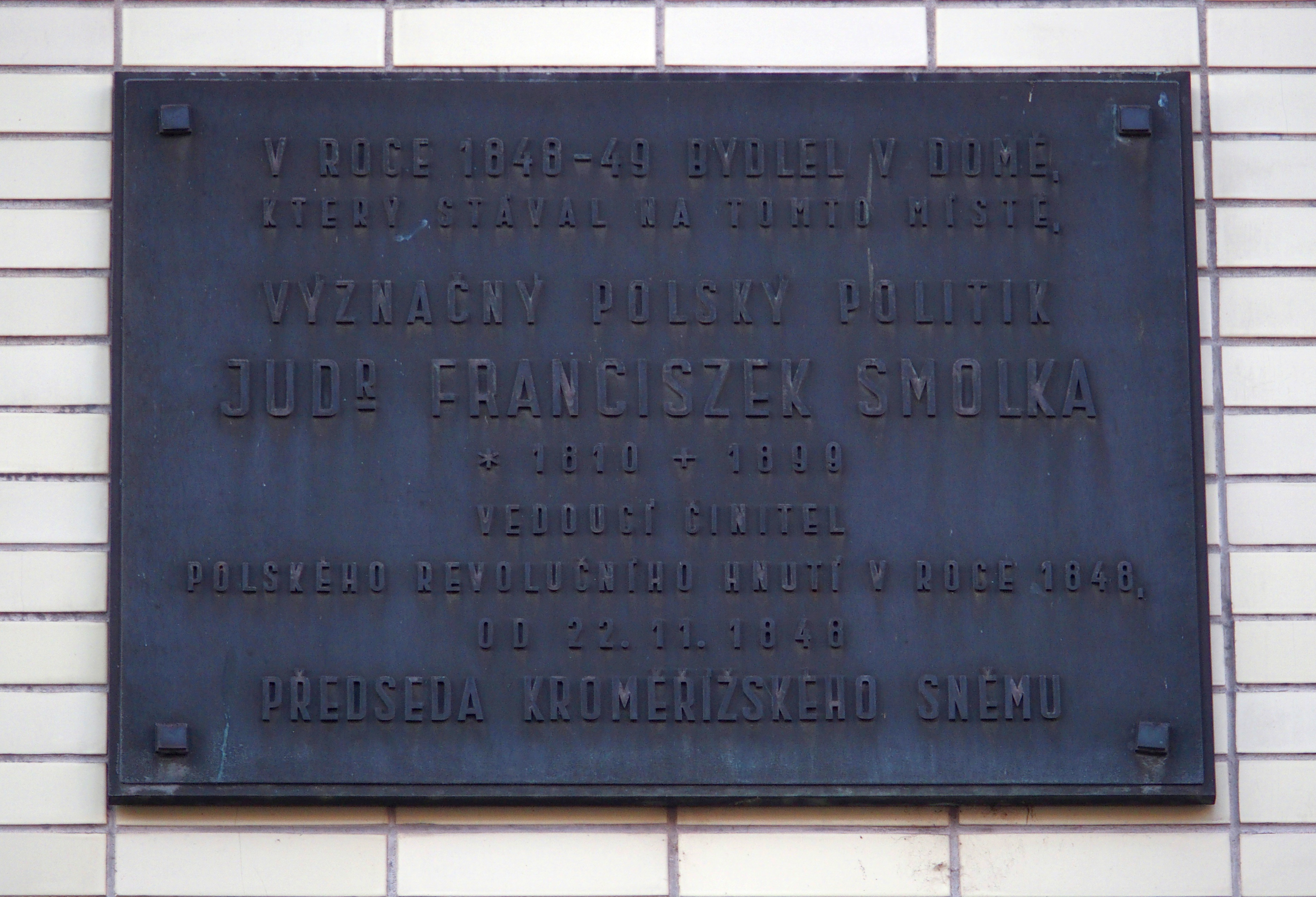 Pamětní deska F. Smolky